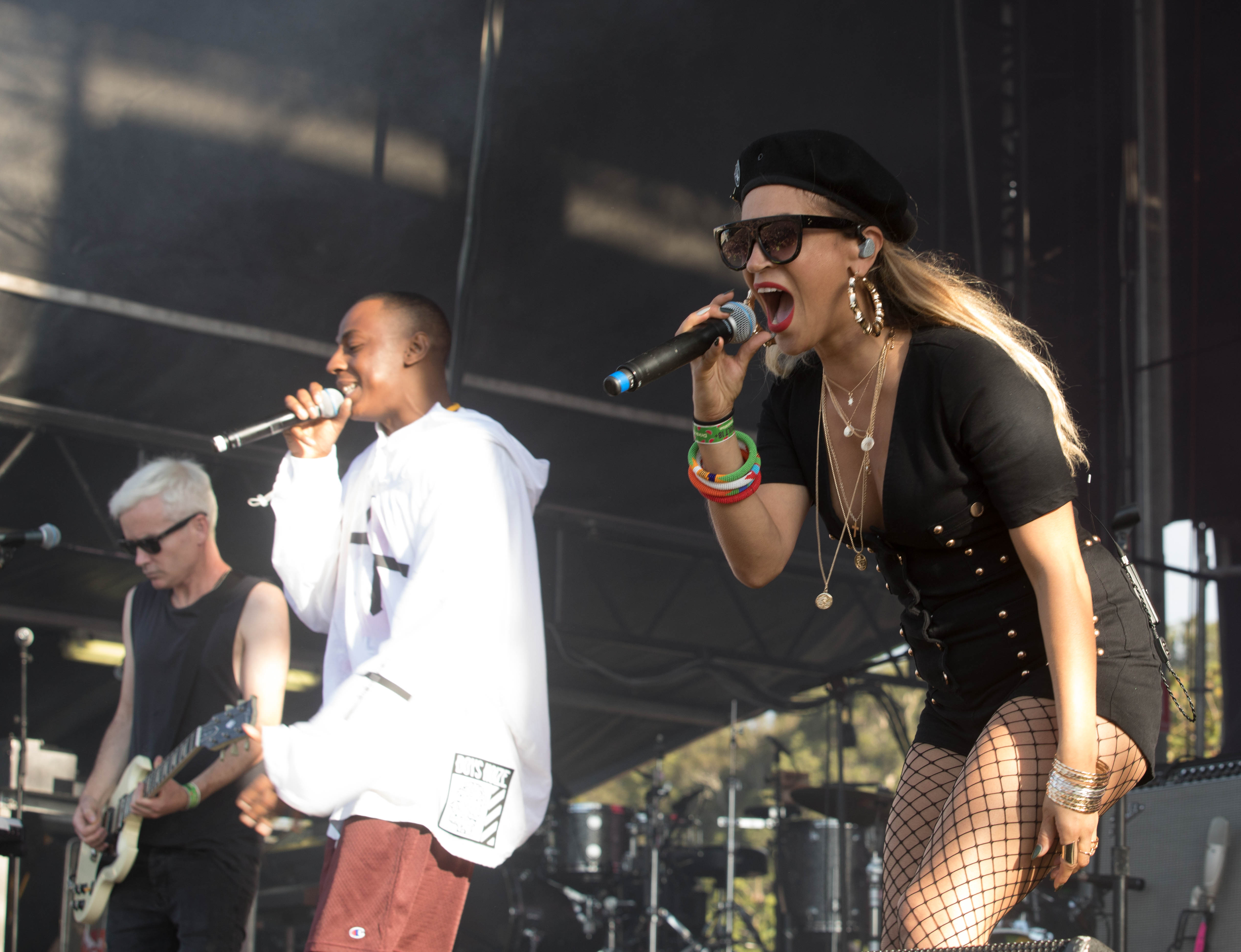 The Avalanches performing at Sydney City Limits 2018. Robbie Chater at the far left is the band's only permanent member in the photo, the two others are touring musicians.